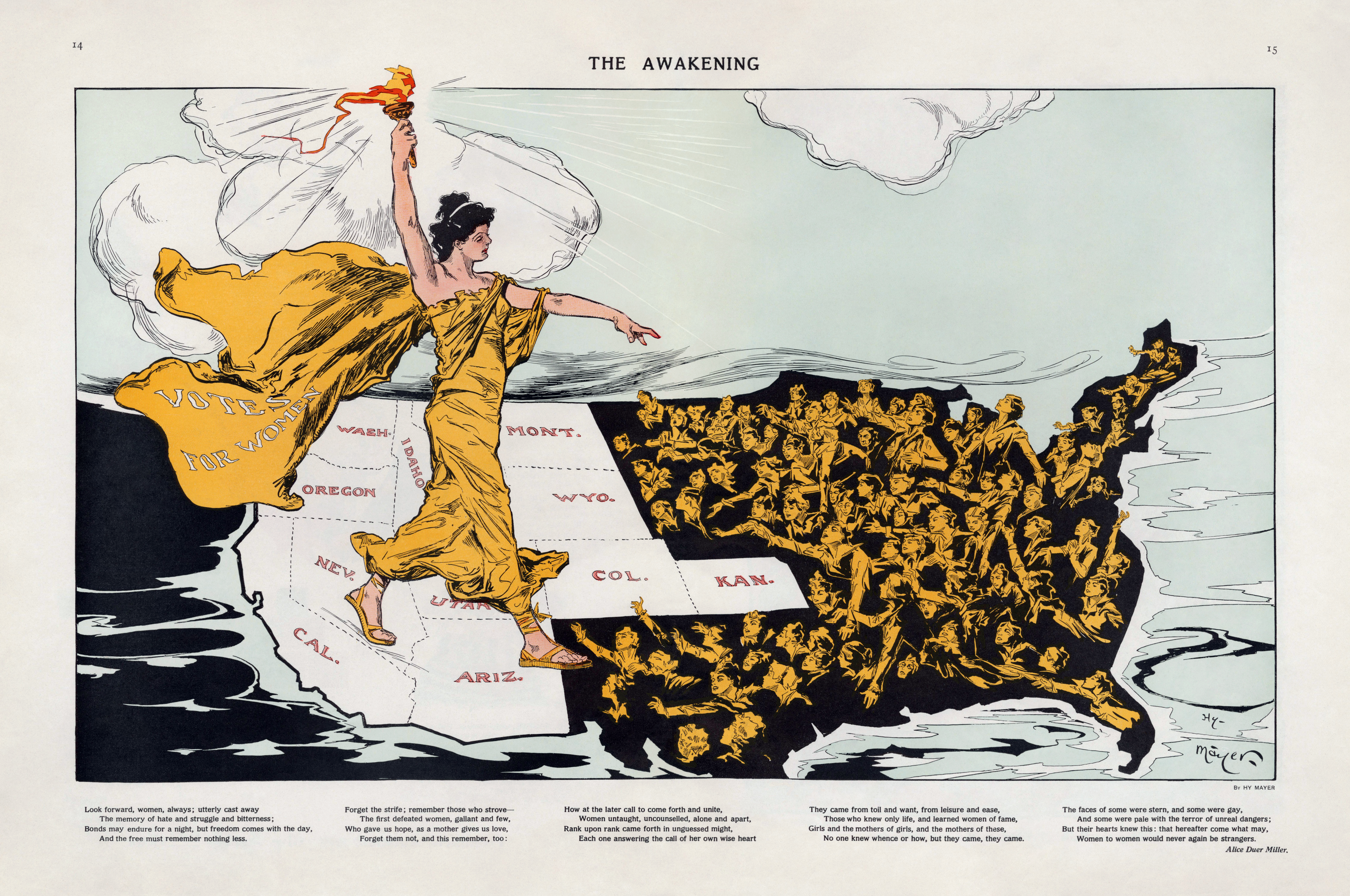 Lady Liberty, wearing a cape labeled "Votes for Women," stands astride the states (colored white) that had adopted suffrage. A poem by Alice Duer Miller is printed beneath.